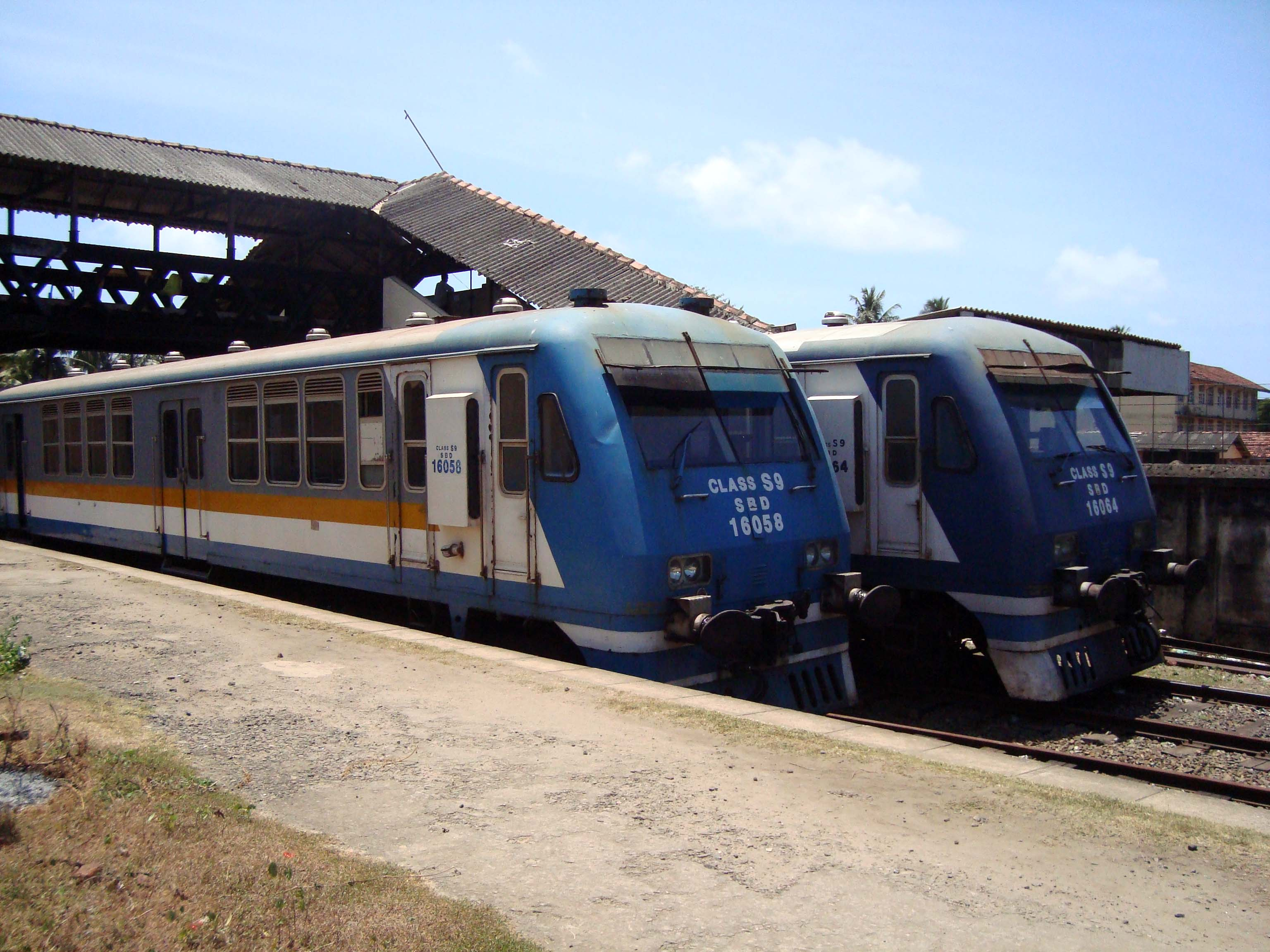 Chinese manufactured Sri Lankan class S9 diesel multiple unit